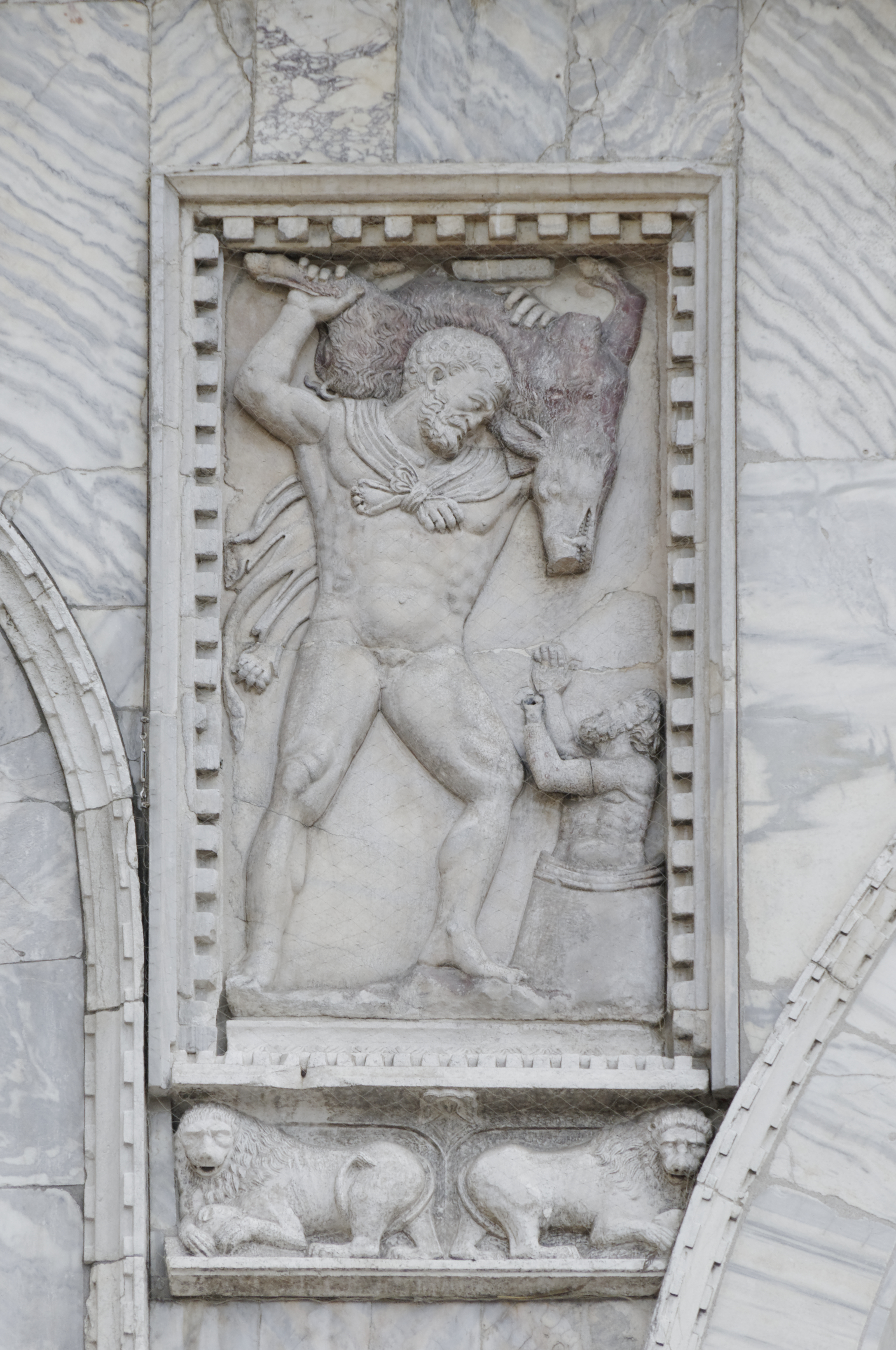 Relief of Heracles frightening Eurystheus into a jar, West façade of St Mark's basilica in Venice.